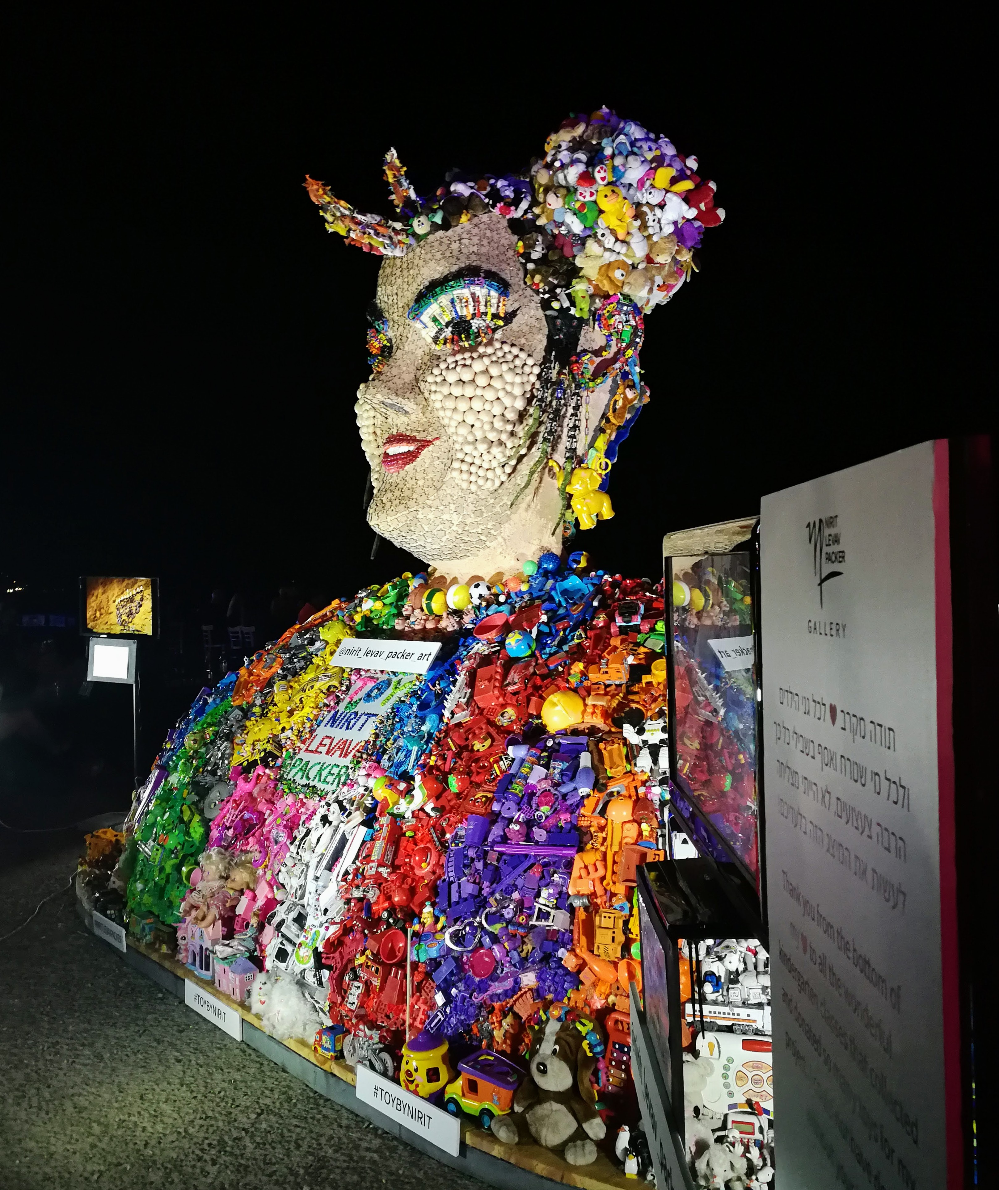 TOY- a huge installation in the image of Israeli Eurovision winner Netta Barzilai made of used toys and game parts on an iron construction. The toys, which were meant to be thrown away, were collected in a huge collection project from kindergartens in Tel Aviv, which the Israeli public also volunteered for.